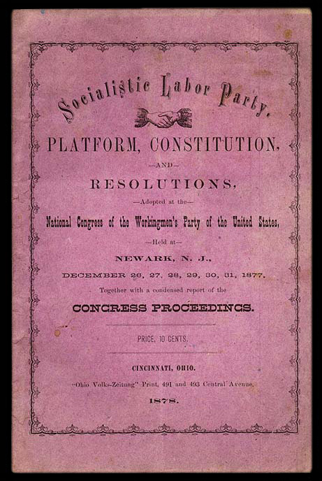 Cover of 1877 pamphlet issued by the Socialistic Labor Party of America